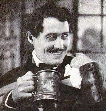 Still from the American biography film The Raven (1915) with Henry B. Walthall, on page 4 of the December 1915 Movie Pictorial.